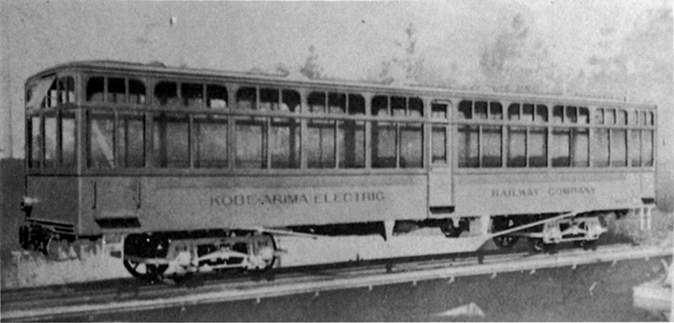 Ten 1, Kobe-Arima Electric Railway, remodelled in 1930.